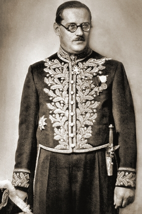 Stanisław Hempel (1891-1968) - Polish diplomat